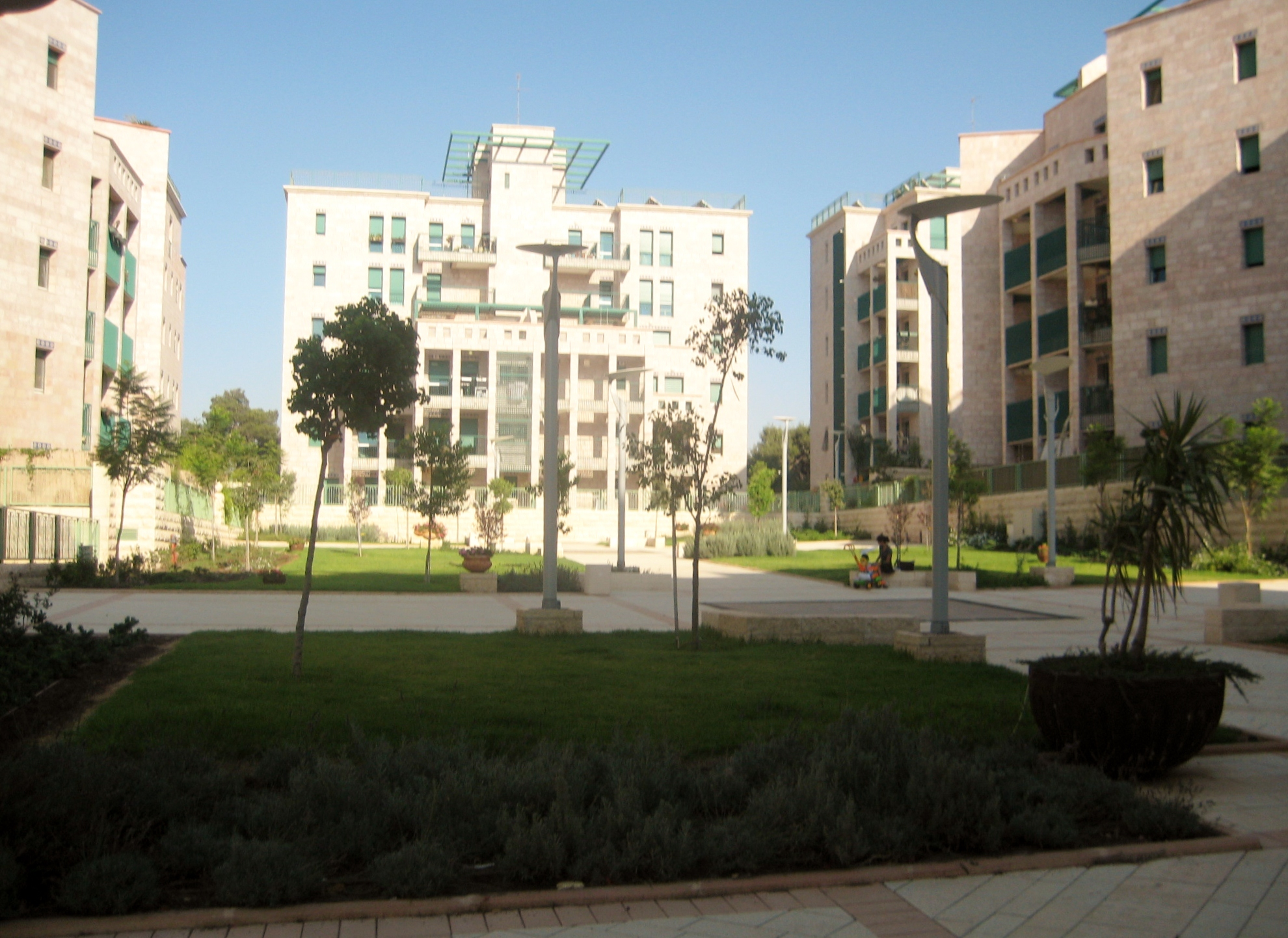 Arnona neighbourhood, Jerusalem